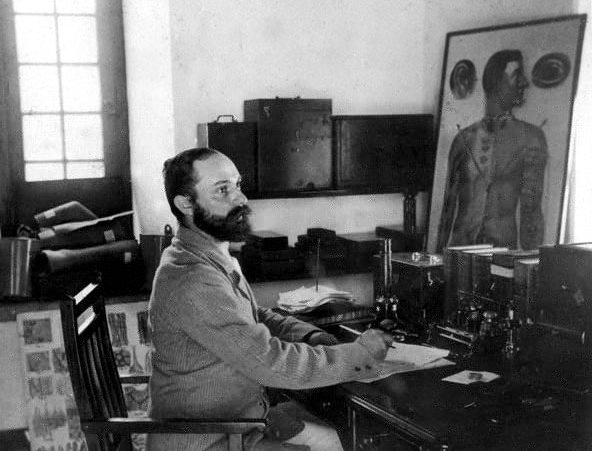 Title: Dr. William Wanless (c.1888) Abstract: Bryn Mawr Presbyterian Church supported Dr. Wanless' missionary work and clinic in Miraj, India; 106 years later the church still supports the Miraj Medical Centre Keywords: Bryn Mawr Presbyterian Church/Wanless, Dr. William/Miraj Medical Centre Source: Bryn Mawr Presbyterian Church Archives; Binder: 4; Collection: W. Robert Swartz. Image was likely taken at the New York University School of Medicine while Wanless was studying there prior to his graduation in 1889.